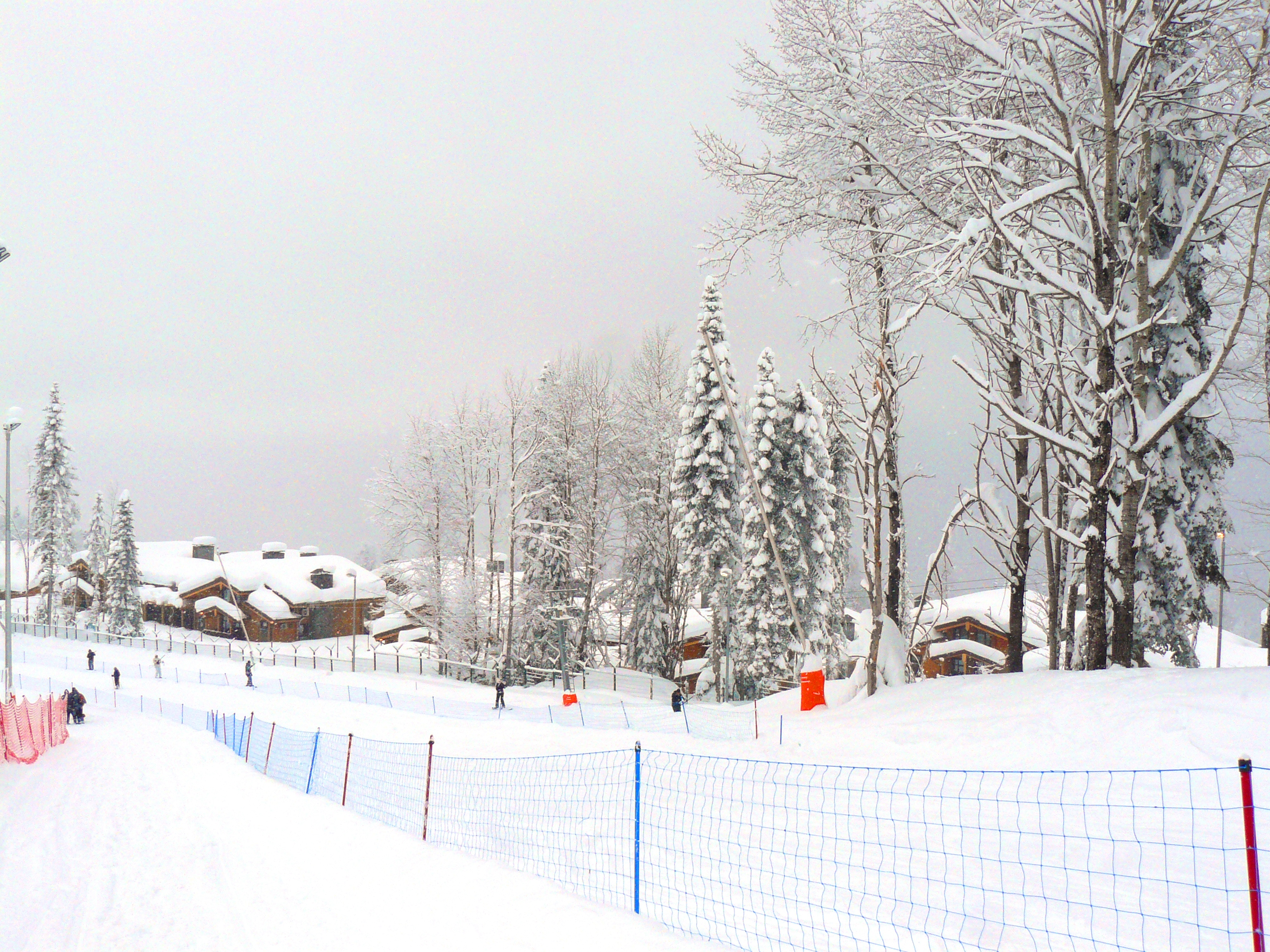 Mountain Ridge